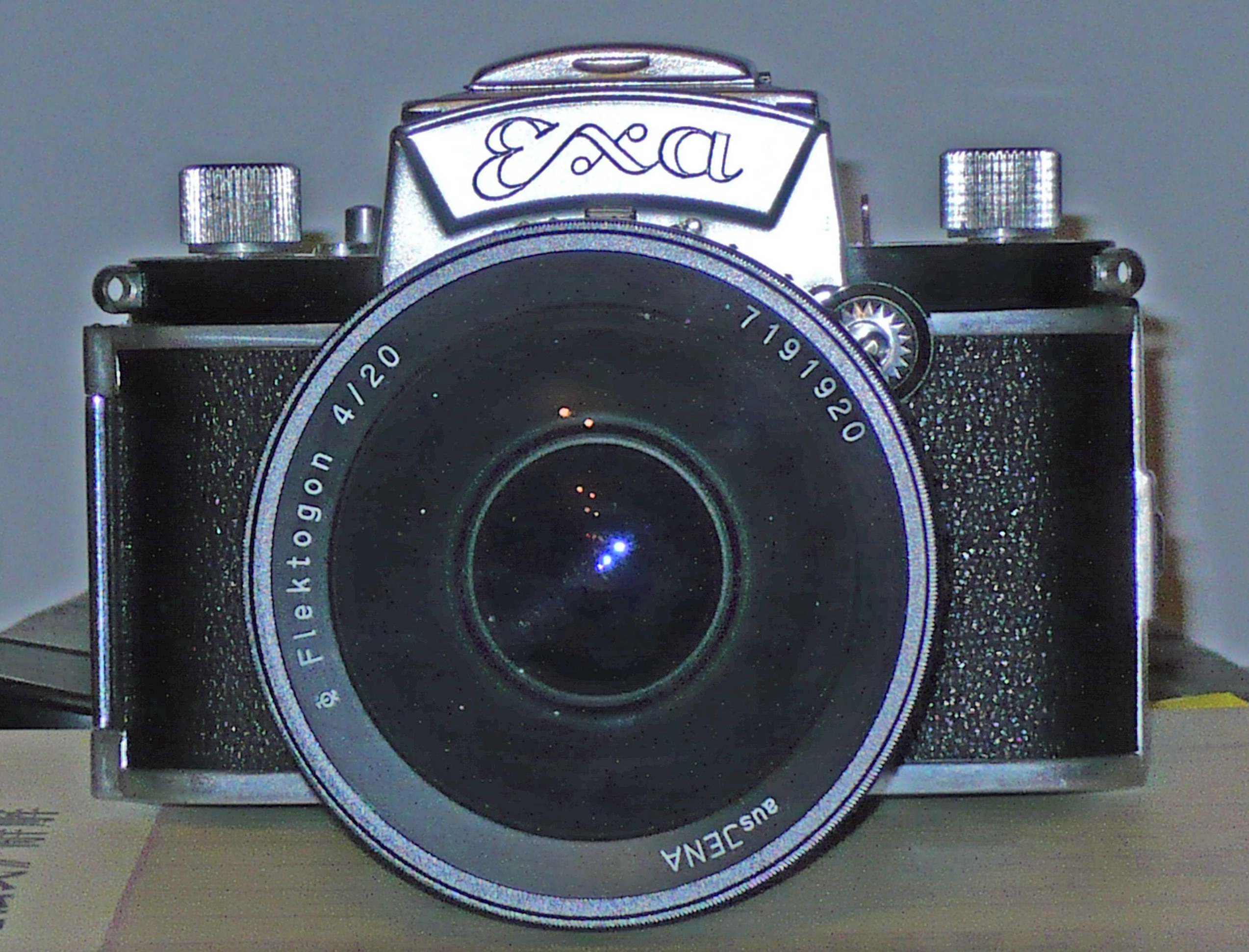 Ihagee Exa camera with Carl Zeiss Jena Flektogon 1:4 20mm super wide angle lens